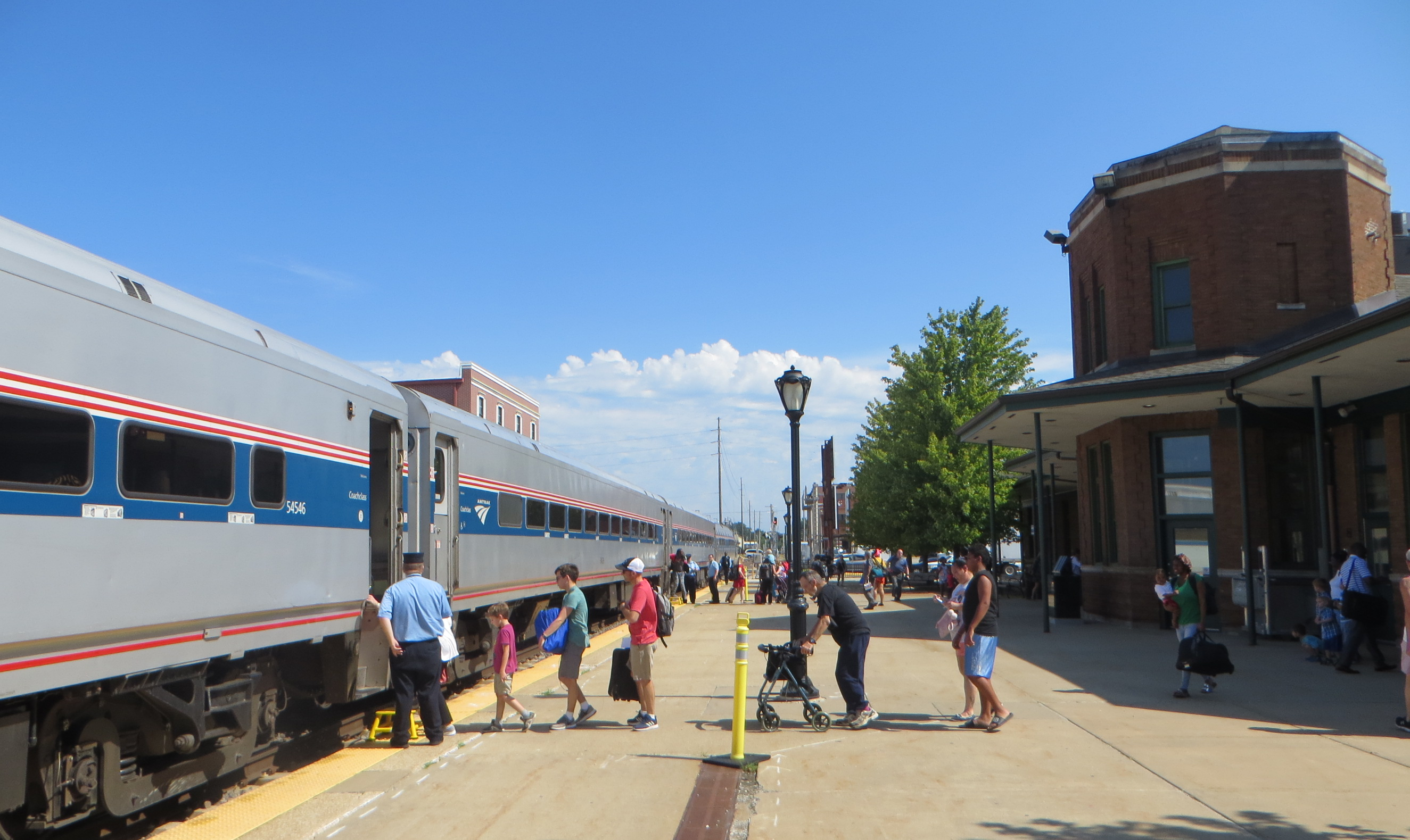 A Lincoln Service train at Springfield station in July 2019